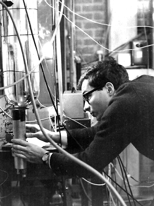 Alberto Passos Guimarães Filho at Manchester University, England.